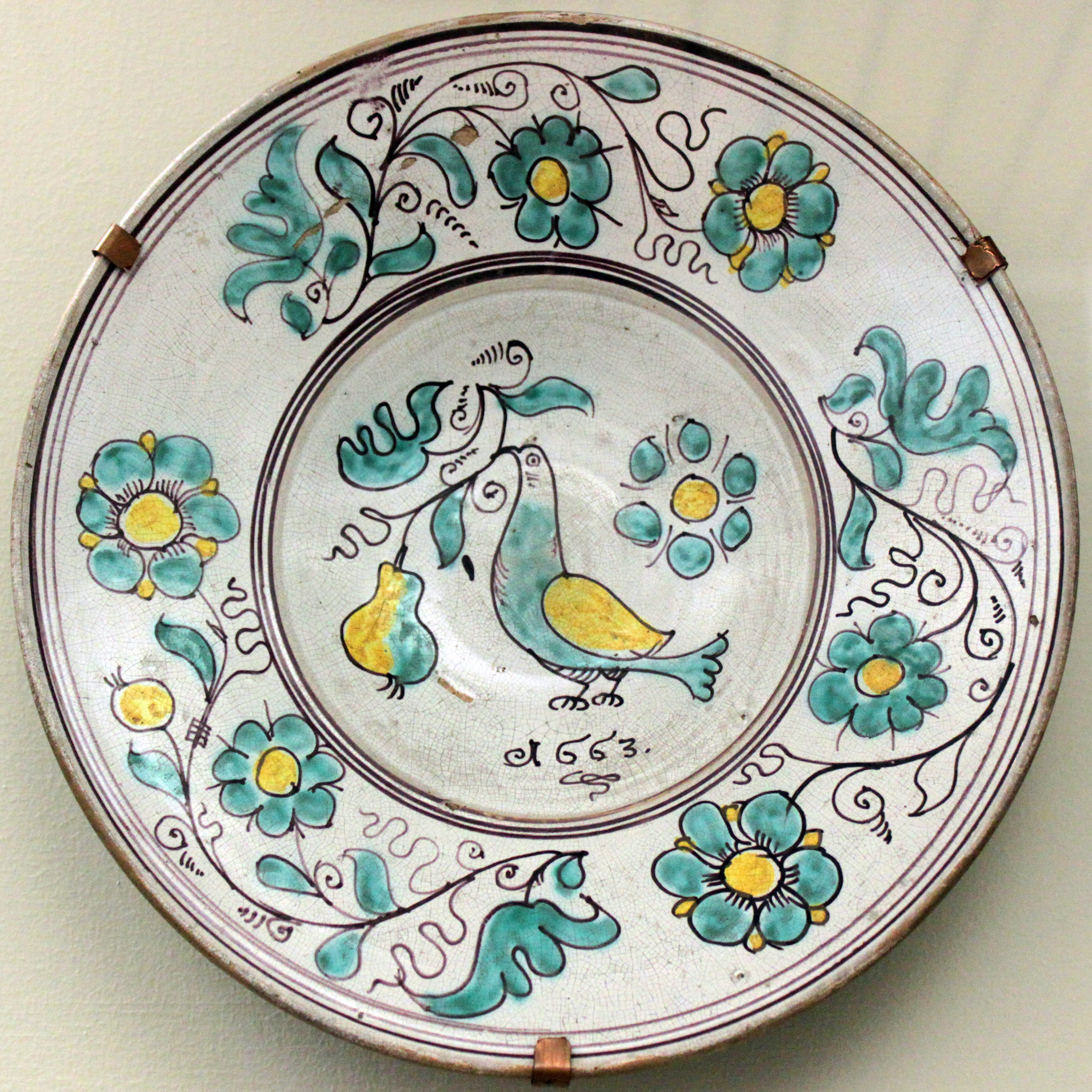 Bowl from Zittau, faience, 1663; Germanic National Museum in Nuremberg